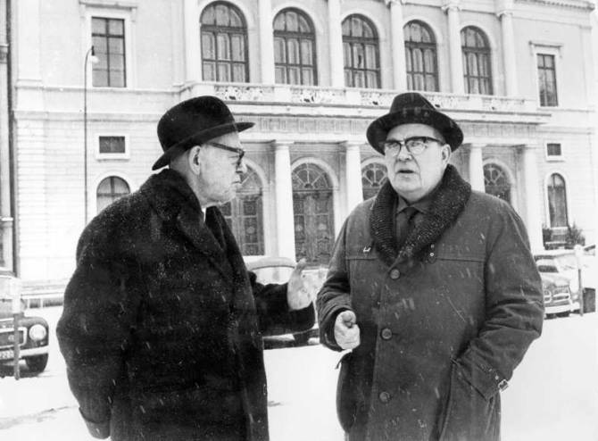 Picture of Harry Hjörne and Torsten Henriksson, two Swedish politicians